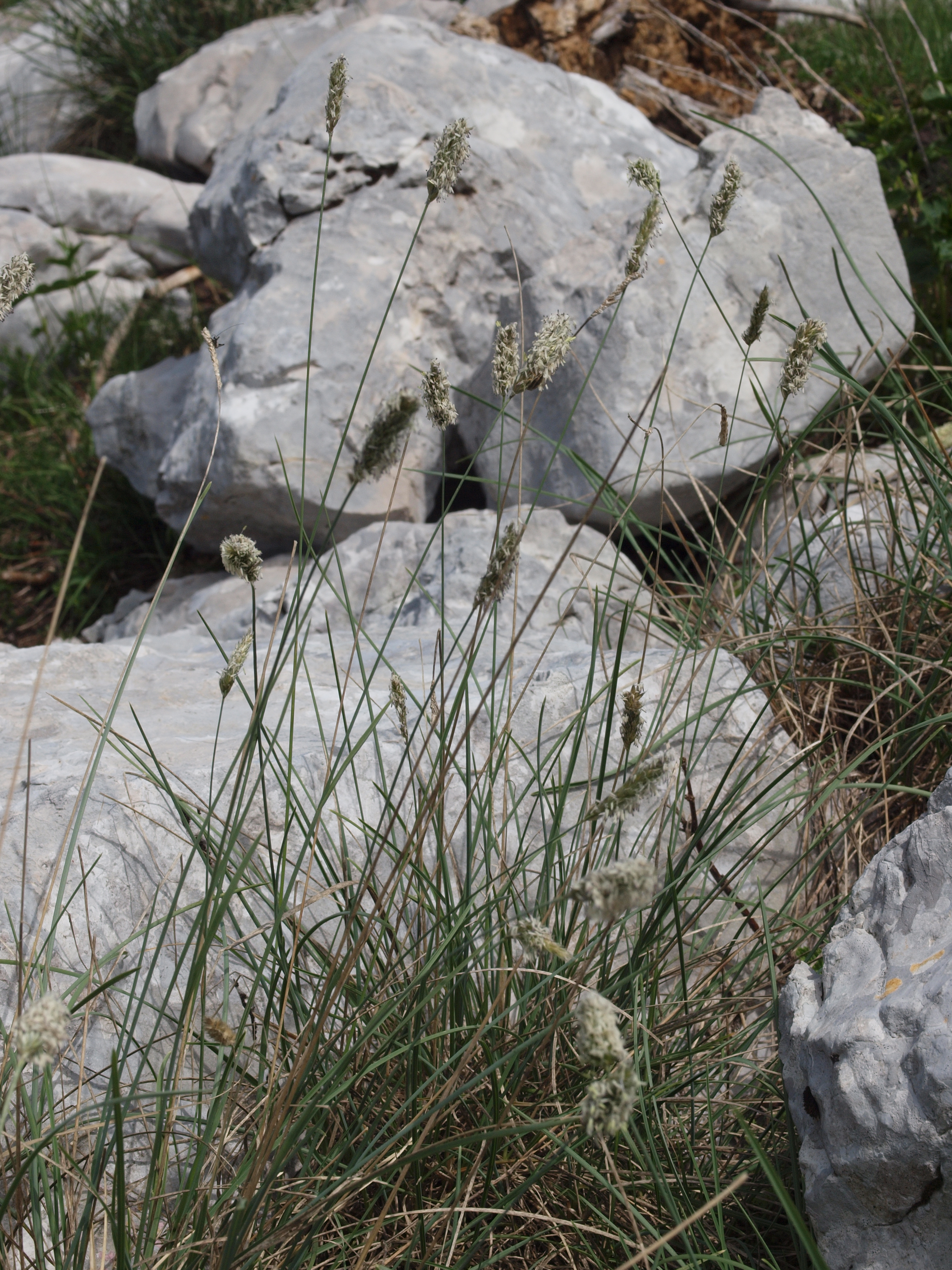 Sesleria robusta